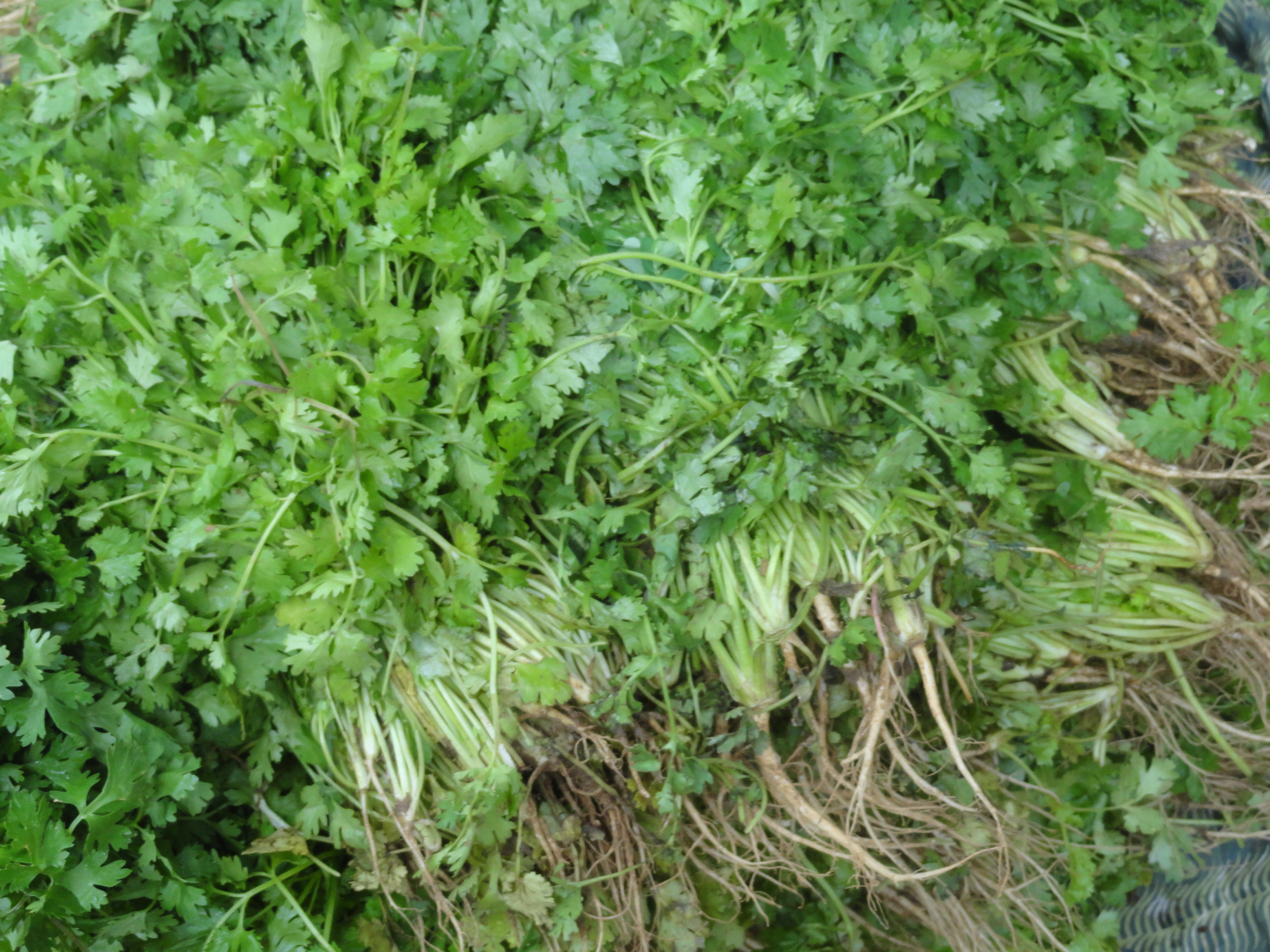 కొత్తిమిరి